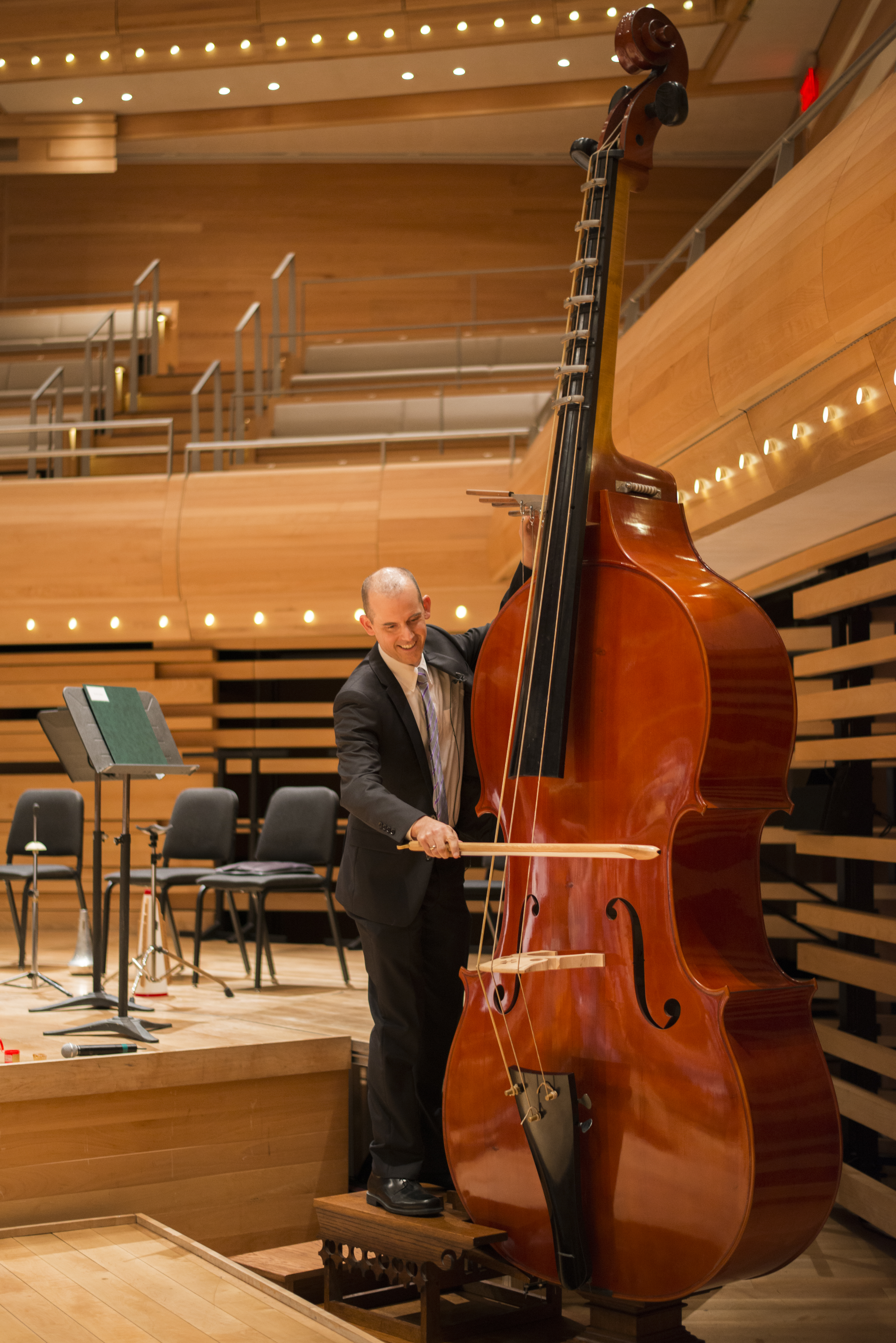 Eric Chappell of the Montreal Symphony Orchestra playing the orchestra's octobass.